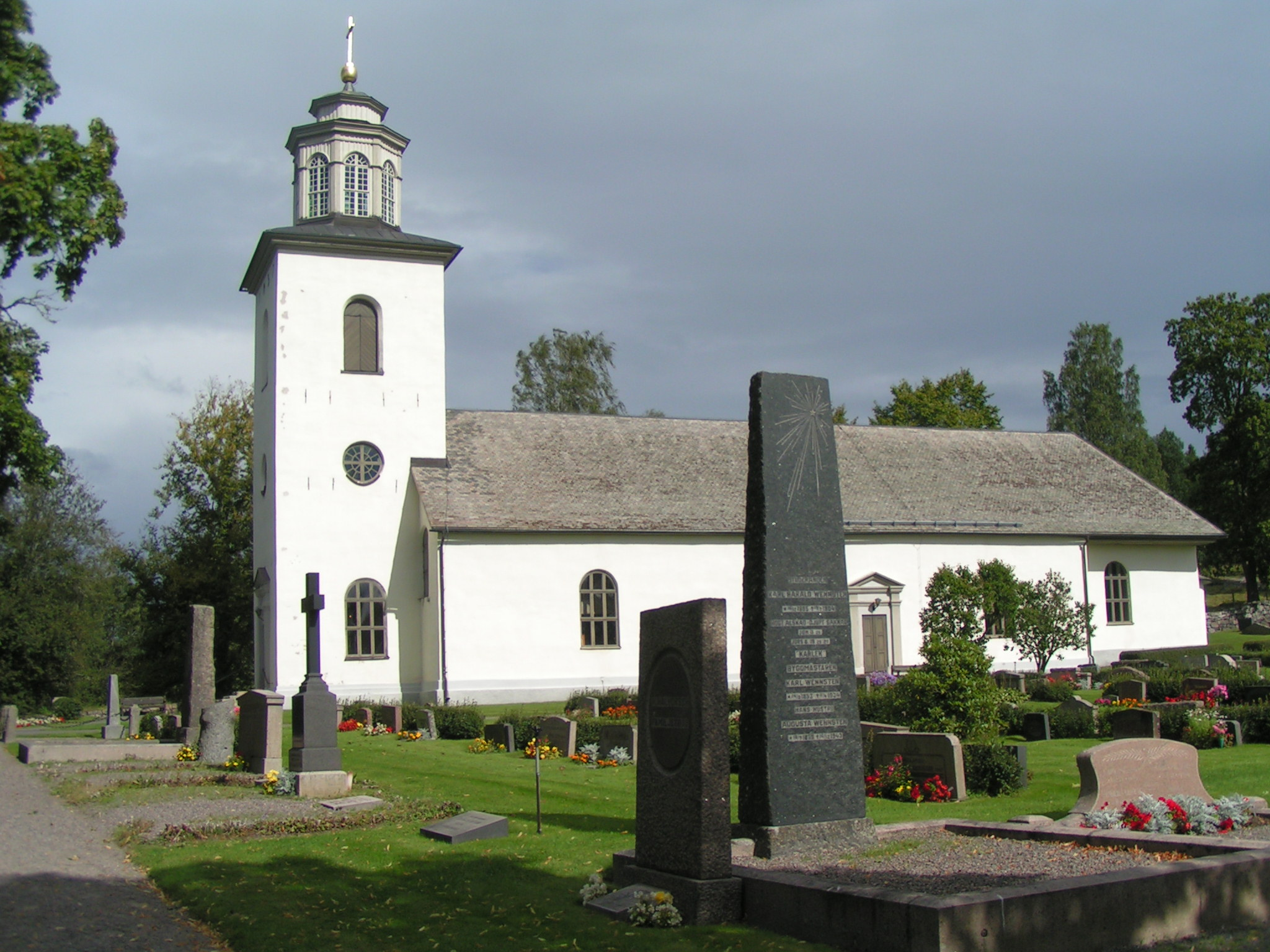 The church in Gillberga, Sweden